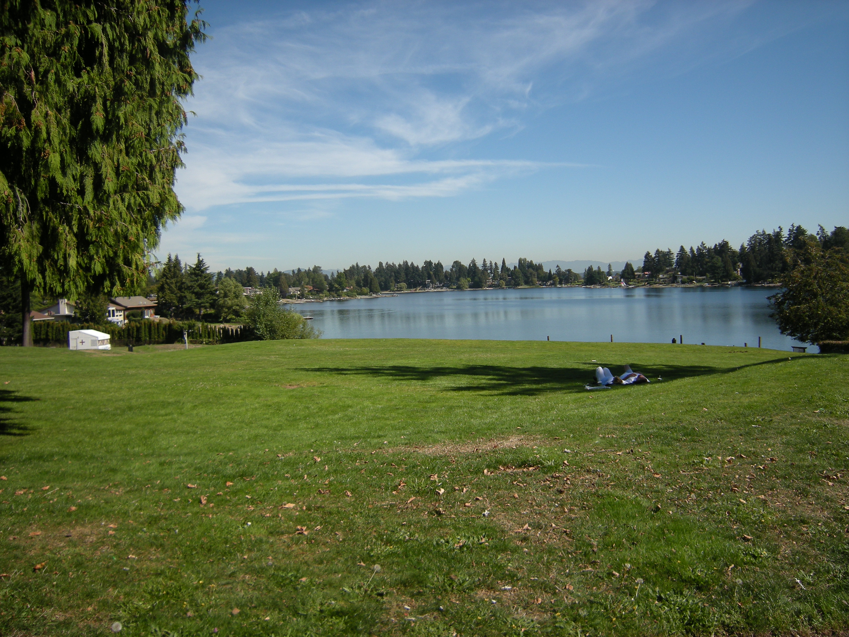 Angle Lake Park, SeaTac, Washington.